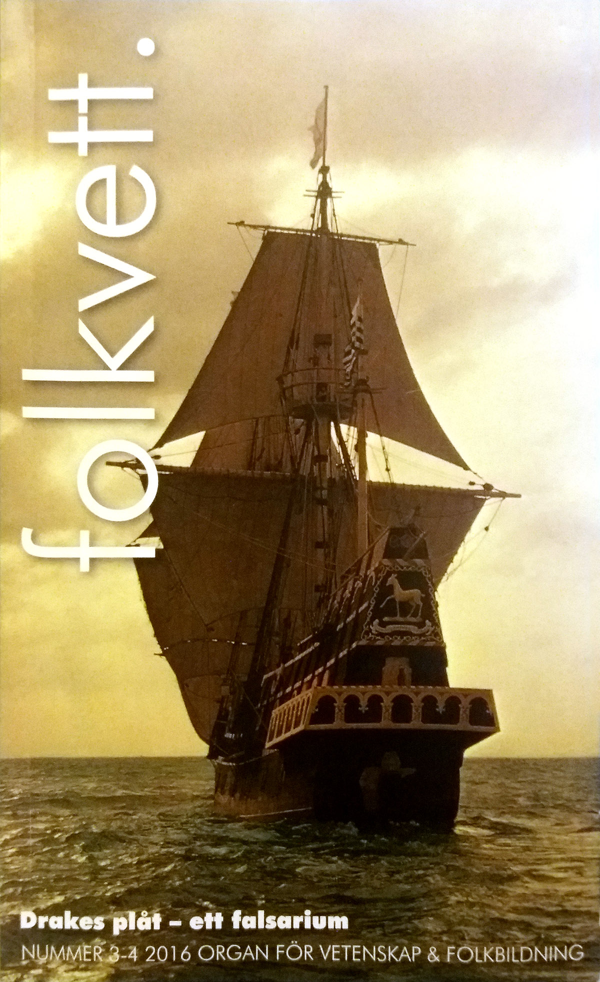 Cover of Folkvett, journal of the Swedish Skeptics association VoF.